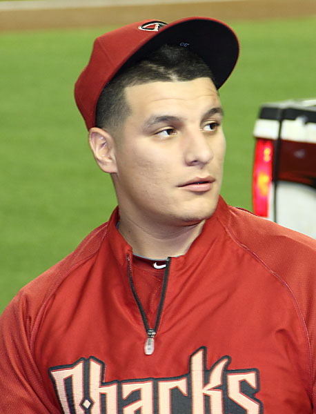 Hernandez, 2011